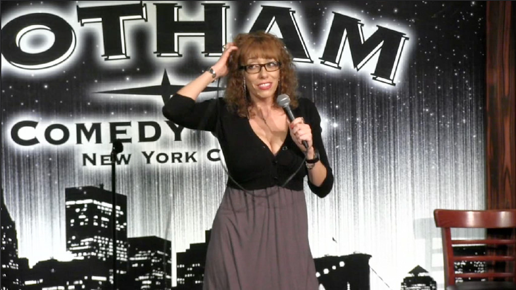 Picture of Alia Janine